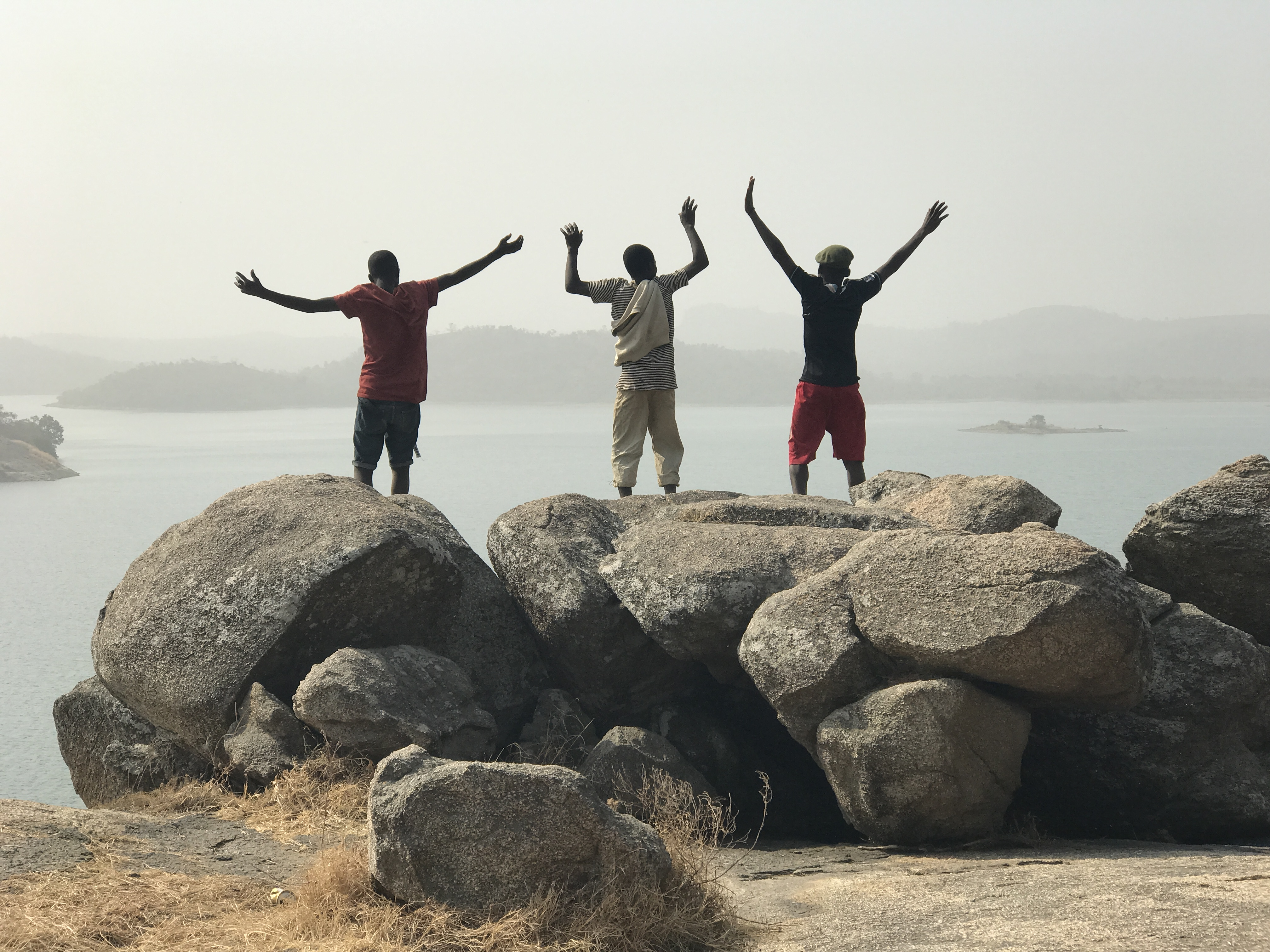 Three friends dancing happily This is an image with the theme "Play" from: Nigeria